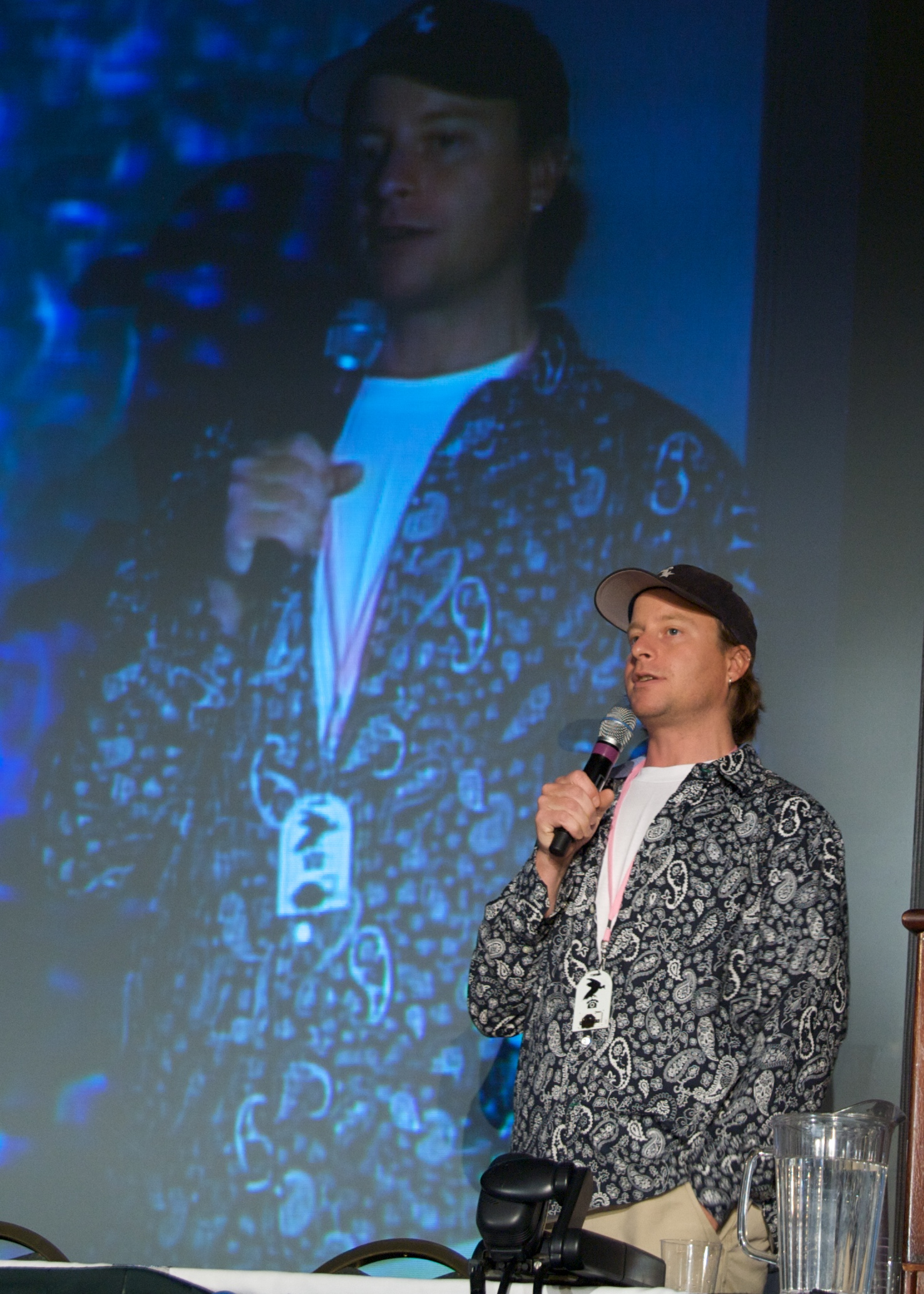 Lazlow Jones presents at The Last HOPE July 20, 2008